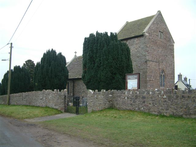 St. Dubritius Church, Llanvaches, Newport, Wales.